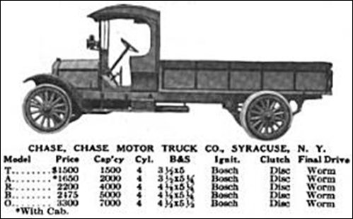 Chase Motor Truck Company - 1918 models in Syracuse, New York